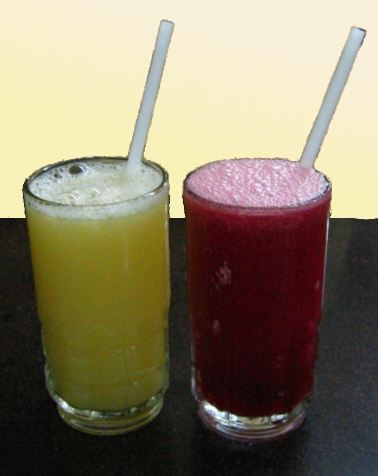 Freshly squeezed sweet lime and pomegranate juice in Bombay. Photographed and edited by me.